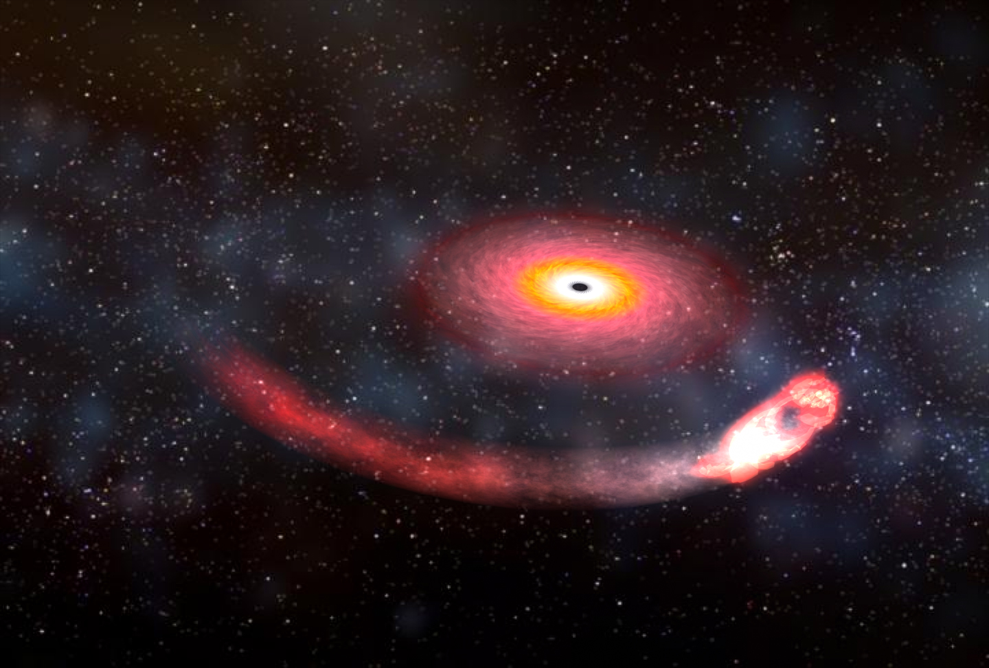 Black hole devours a neutron star. Scientists say they have seen tantalizing, first-time evidence of a black hole eating a neutron star-first stretching the neutron star into a crescent, swallowing it, and then gulping up crumbs of the broken star in the minutes and hours that followed.